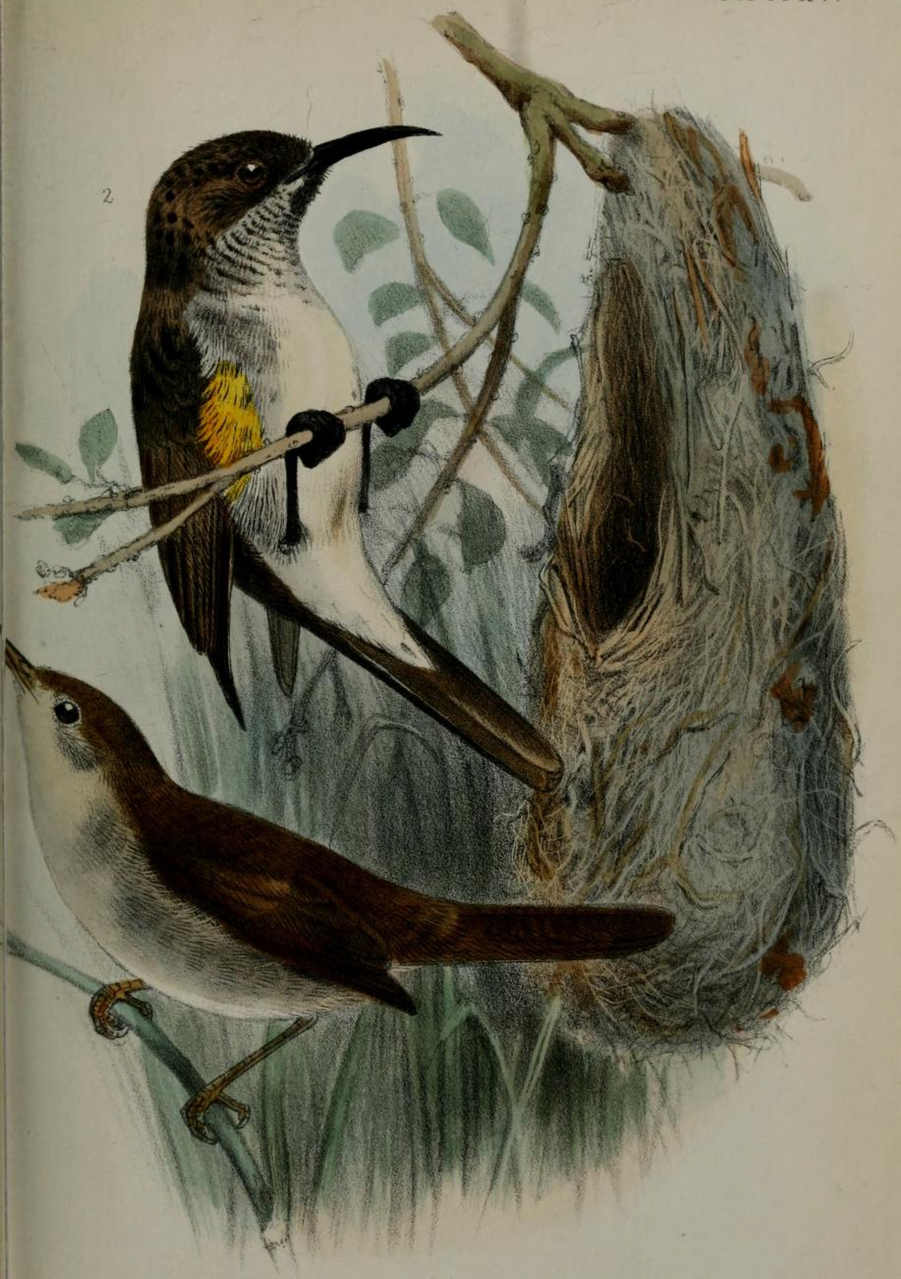 Joseph Smit's depictions of the Socotra Warbler and Socotra Sunbird, from their description in the Proceedings of the Scientific Meetings of the Zoological Society of London